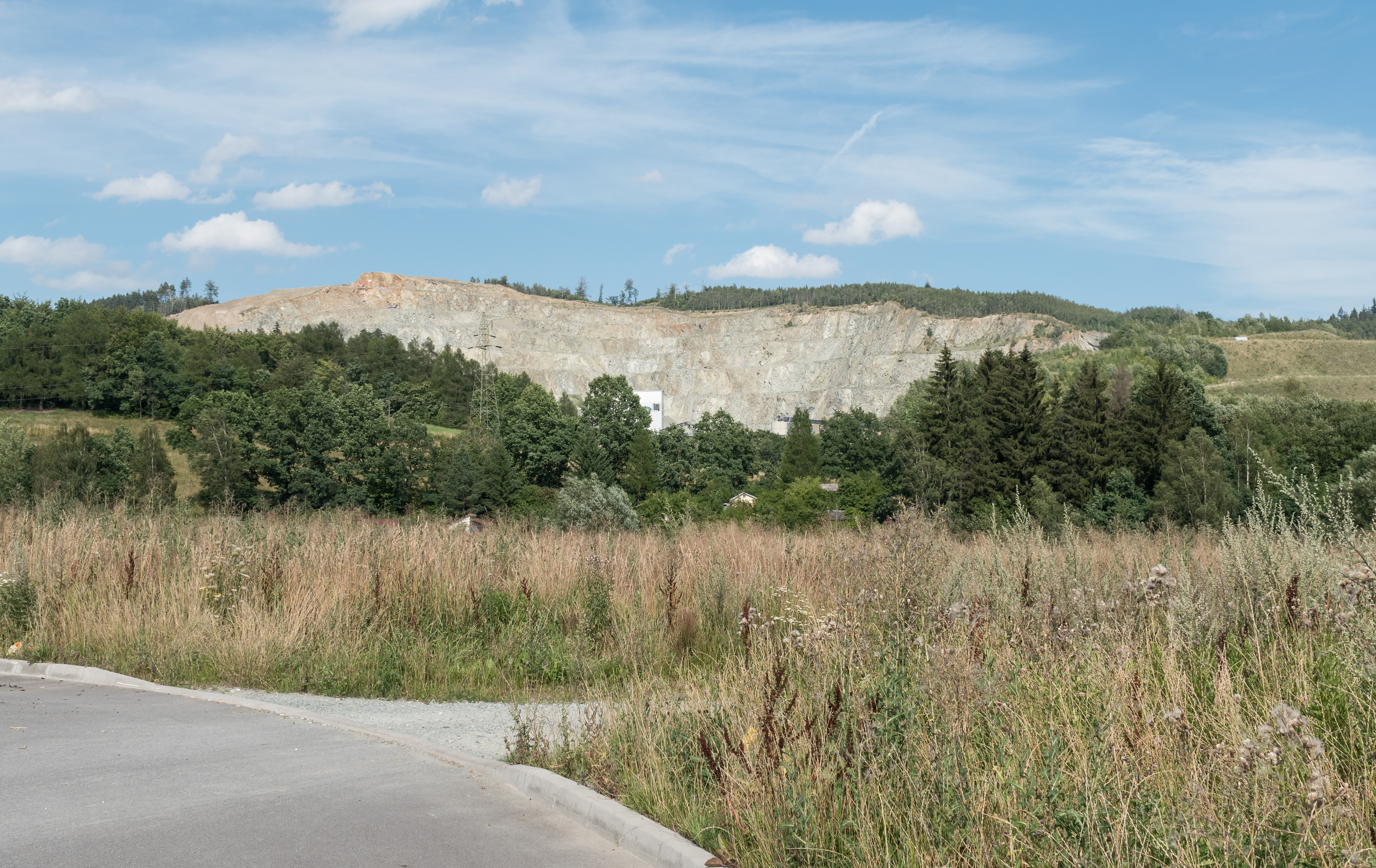 Quarry of gabbro on hillside of Przykrzec